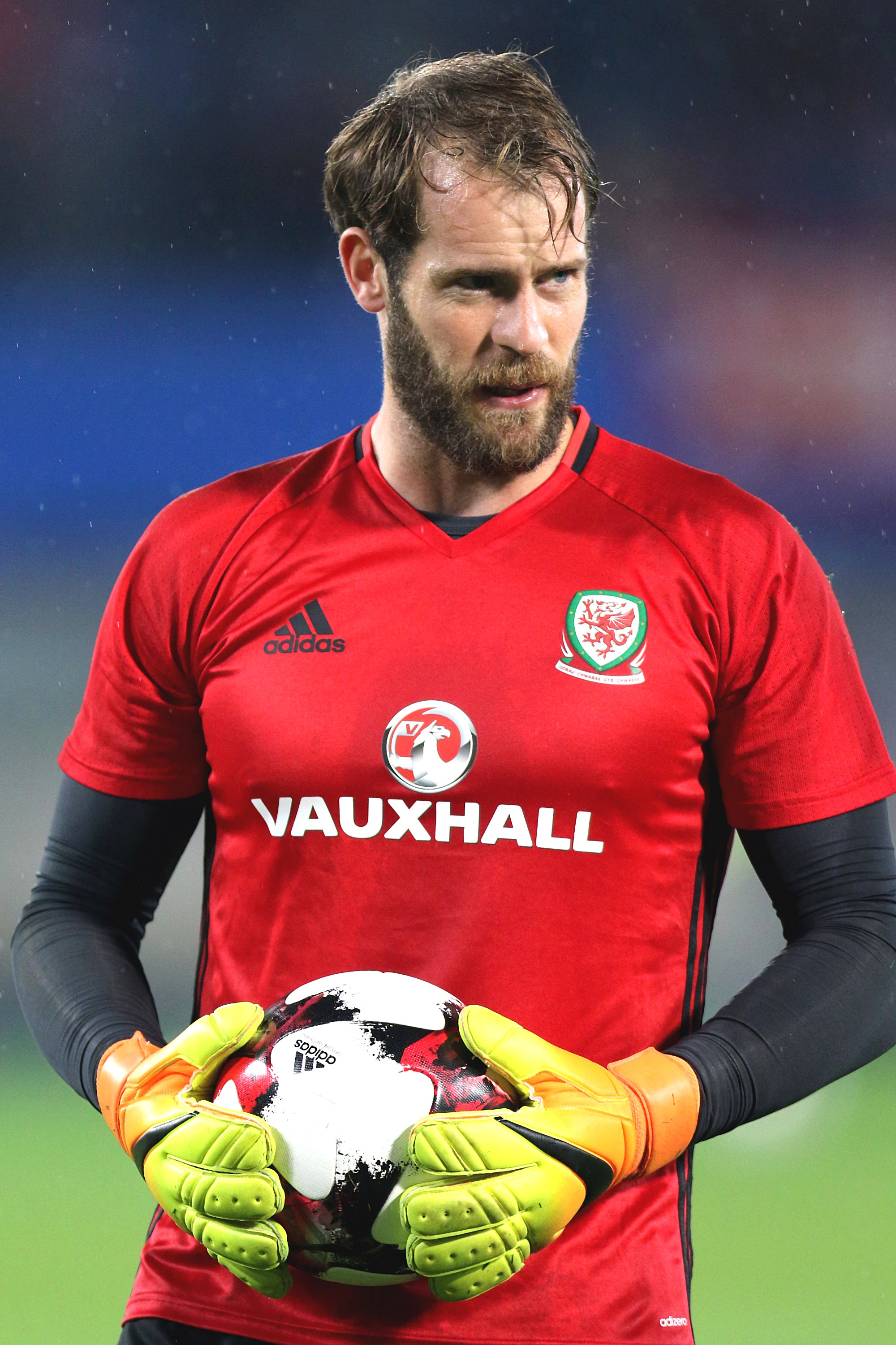 2018 FIFA World Cup qualification – UEFA Group D) – Austria (red shirts) vs. Wales (white shirts) 2-2 (1-2) – 2016-10-06 in Vienna, Ernst-Happel-Stadion – The photo shows goalkeeper Owain Fôn Williams (Wales).